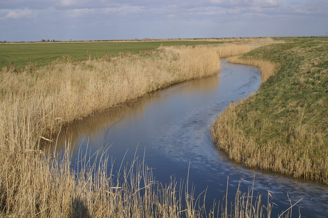 Dengie Marshes. Asheldham Brook, the main waterway of these marshes, looking NE